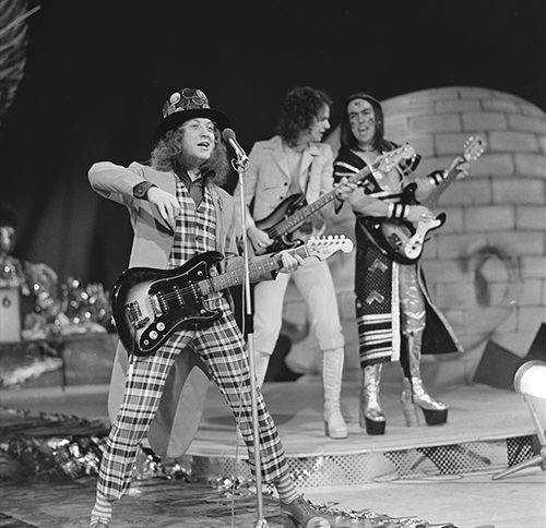 Slade in AVRO's TopPop (Dutch television show) in 1973